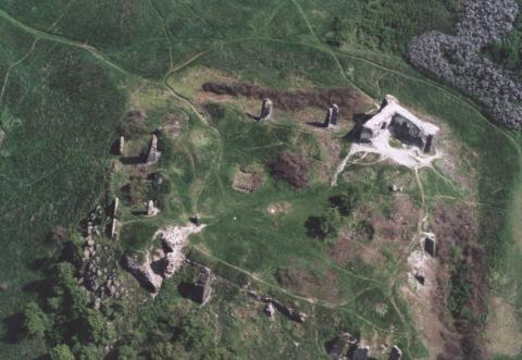 Castle Csobánc, Hungary, Veszprém County near Gyulakeszi